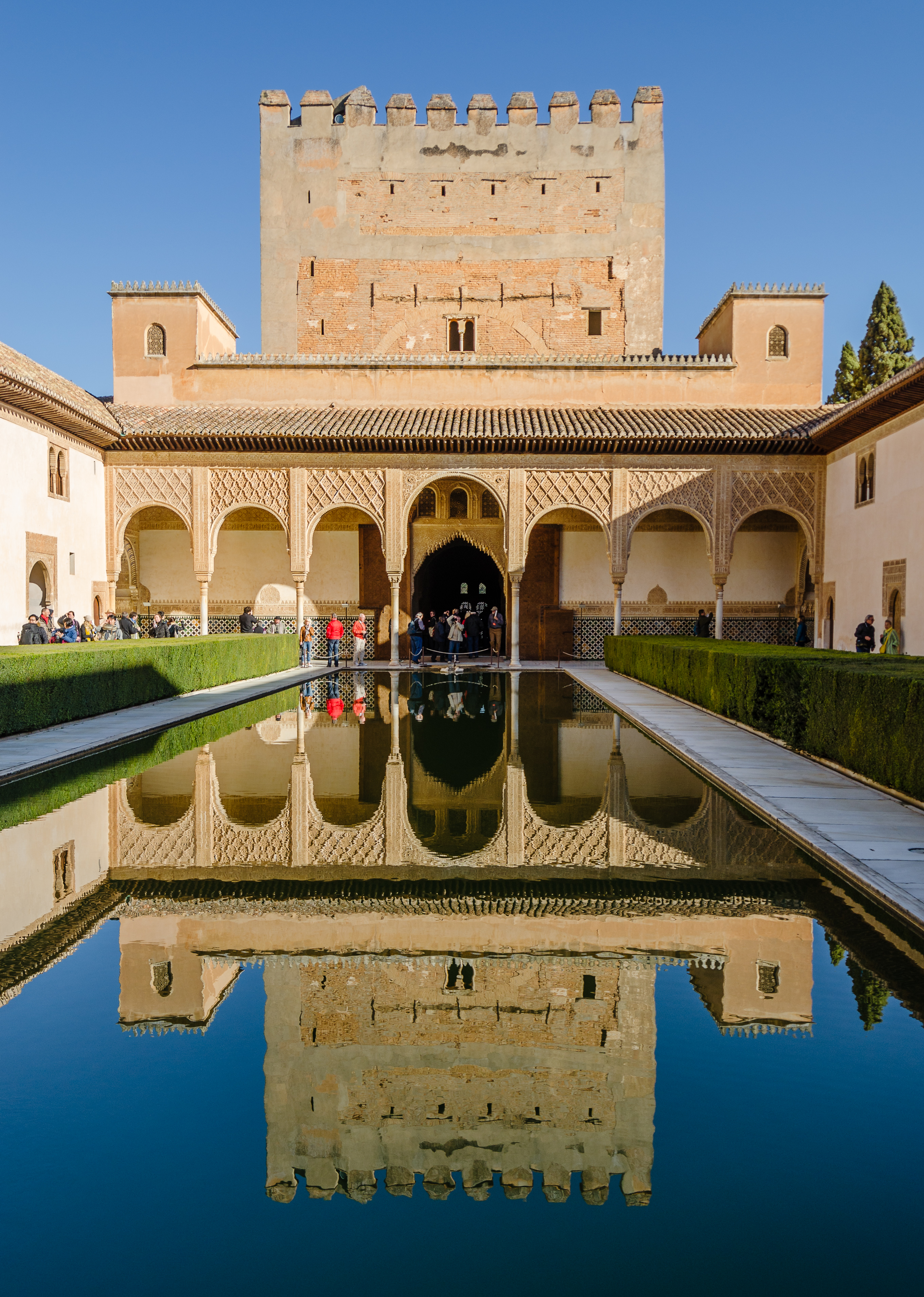 Alhambra Patio de los Arrayanes